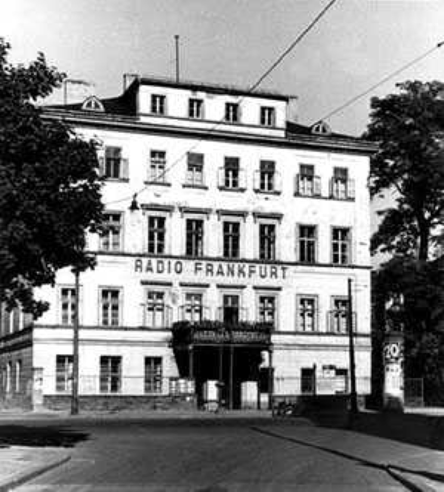 Building of Radio Frankfurt at Eschersheimer Landstrasse in Frankfurt am Main, Hesse, Germany, which was provisional rebuilt after WWII bombardment. It was reused after a transitional period in Bad Nauheim until the construction of the new Funkhaus am Dornbusch at Bertramstrasse, where the broadcast technicians and the editorial staff moved into between 1951 and 1954.